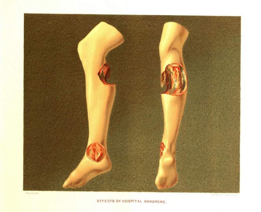 Illustration from The Medical and Surgical History of the War of the Rebellion (USG Printing Office, 1870-88) - Effects of hospital gangrene - part III vol 2